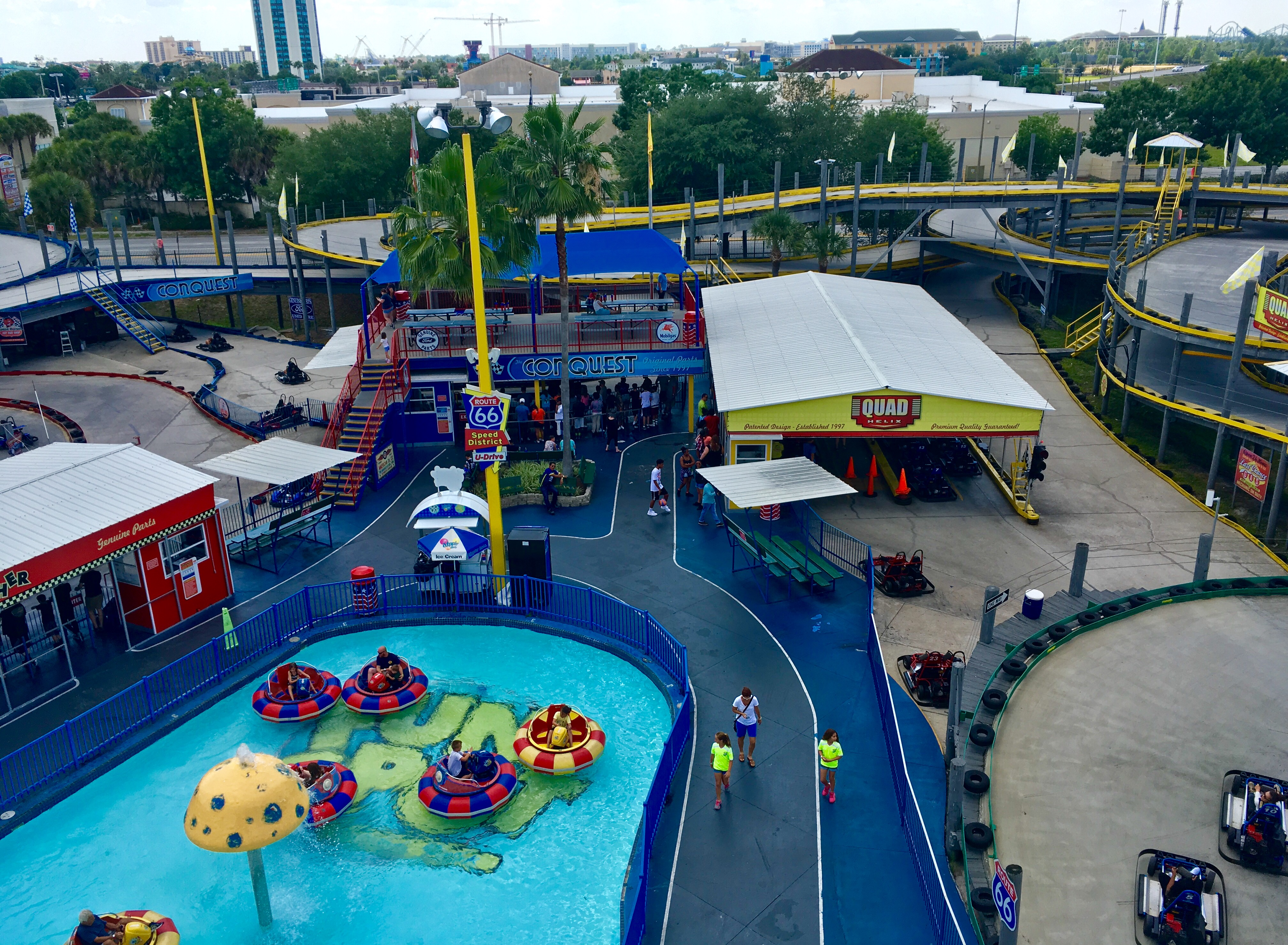 Fun Spot America Orlando - Original Area